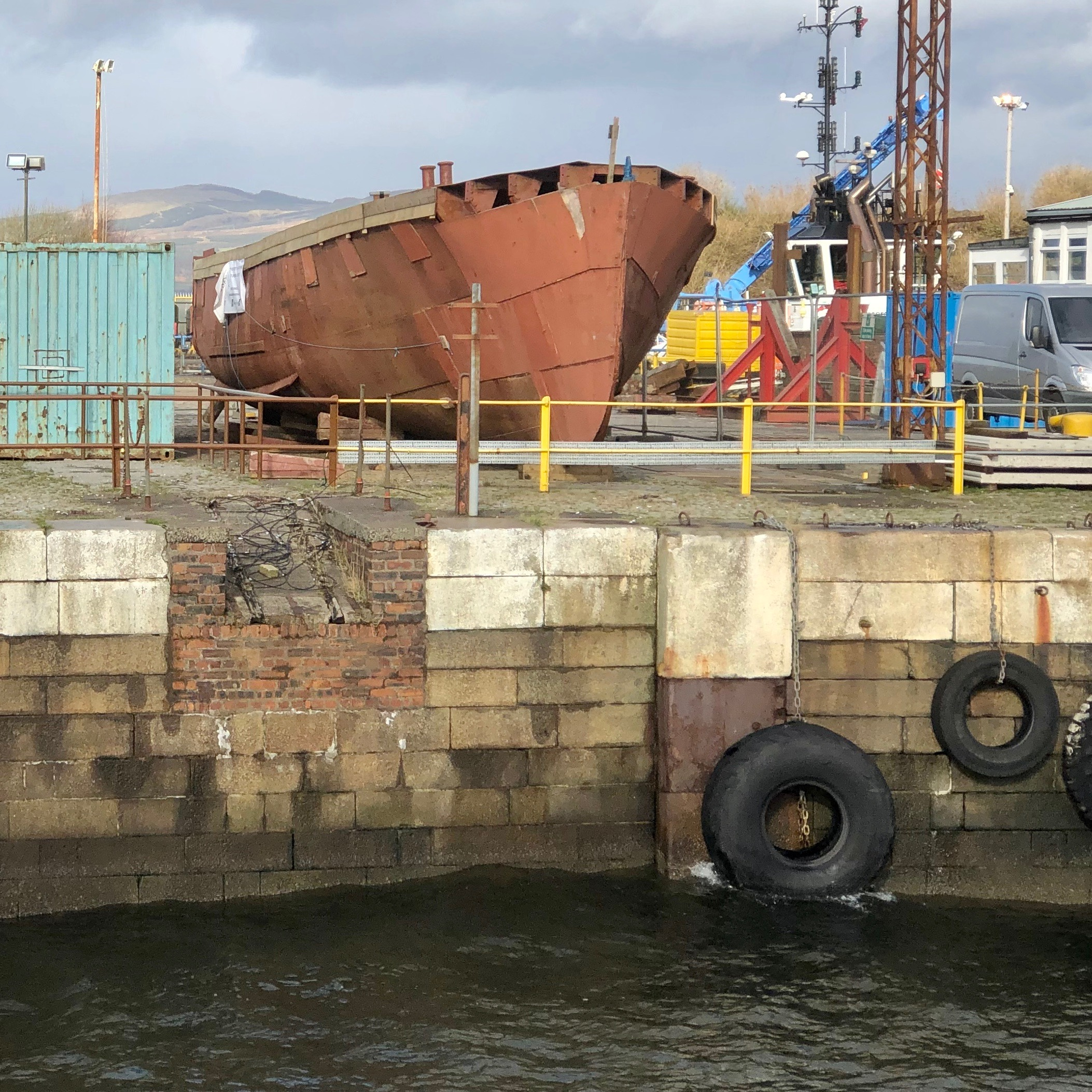 Entrance to the James Watt Dock in Greenock, with MV The Second Snark awaiting restoration work